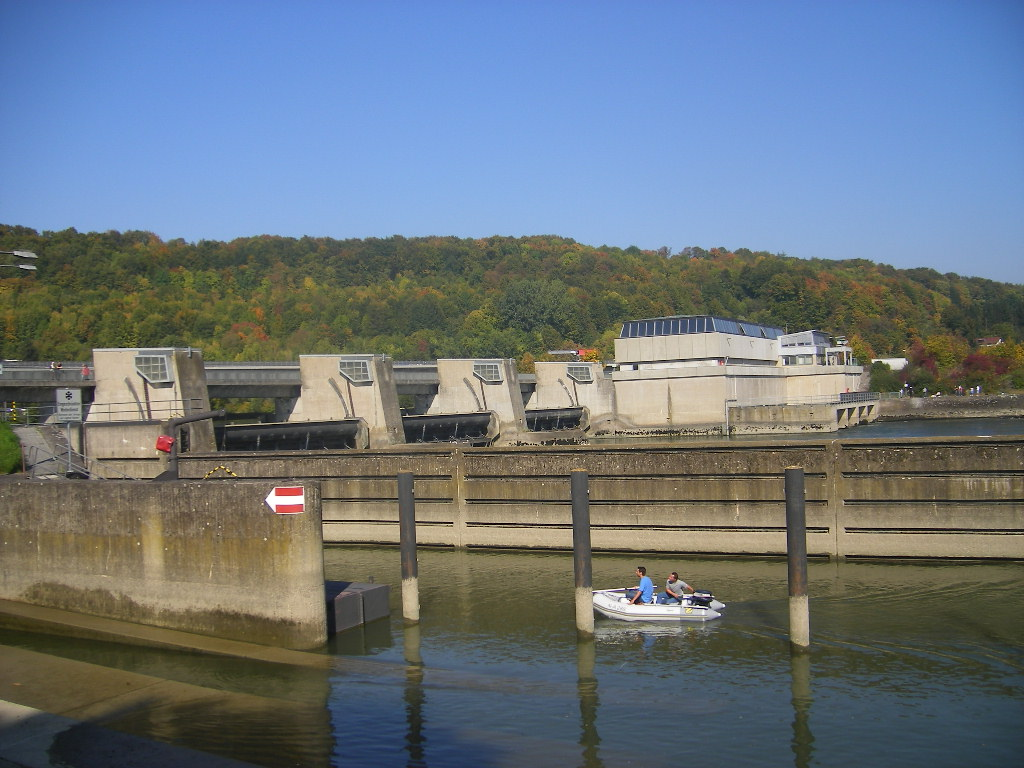 Regensburg - Danube - hydroelectric power plant